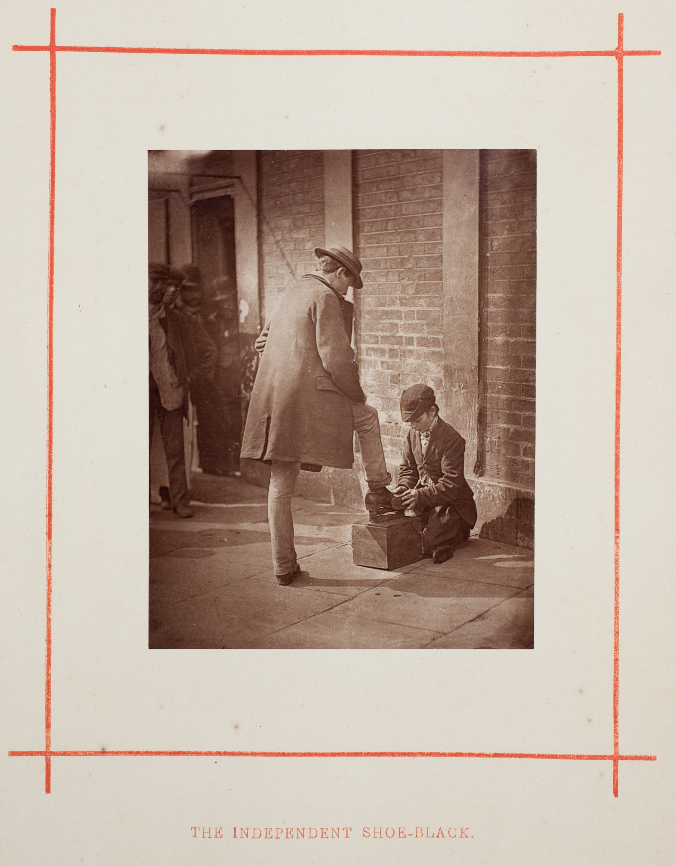 Photo by John Thomson (photographer)